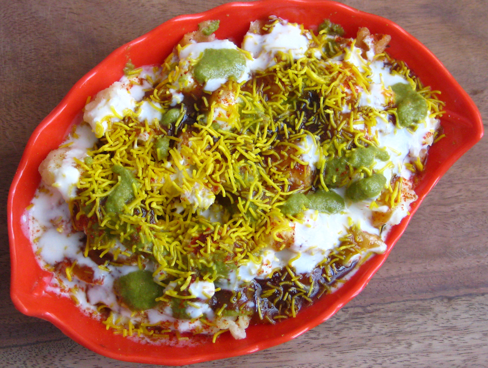 Papri Chaat is one of the most eaten snack food in India.